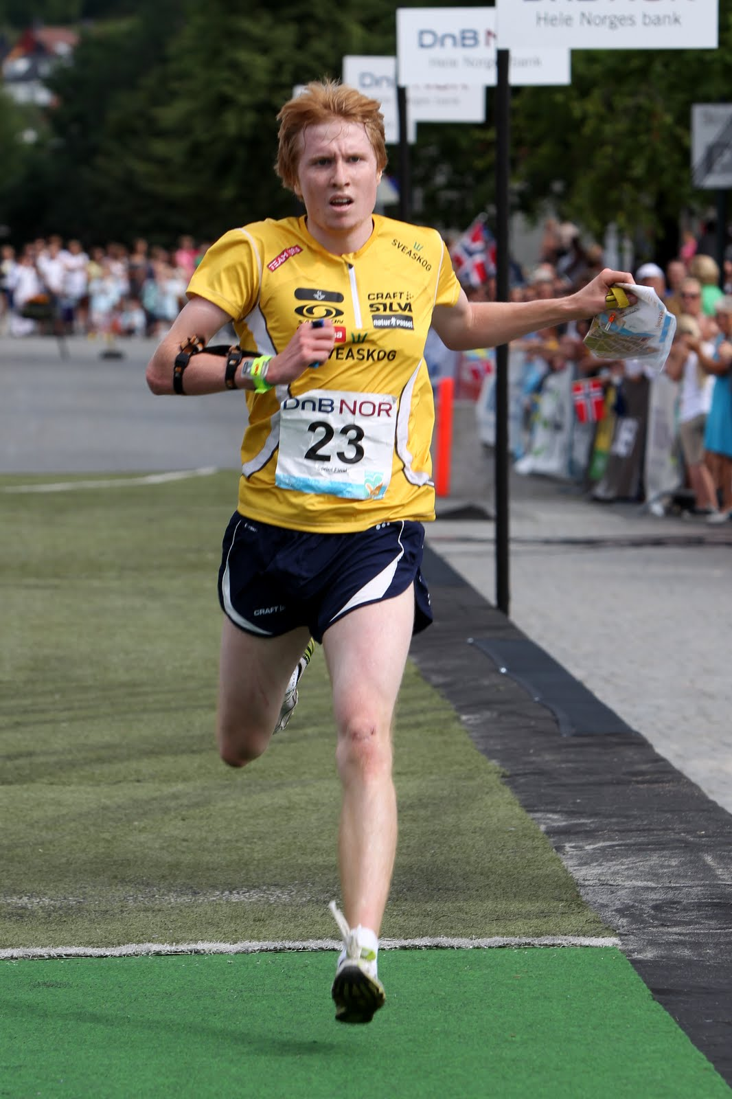 Jerker Lysell at World Orienteering Championships 2010 in Trondheim, Norway